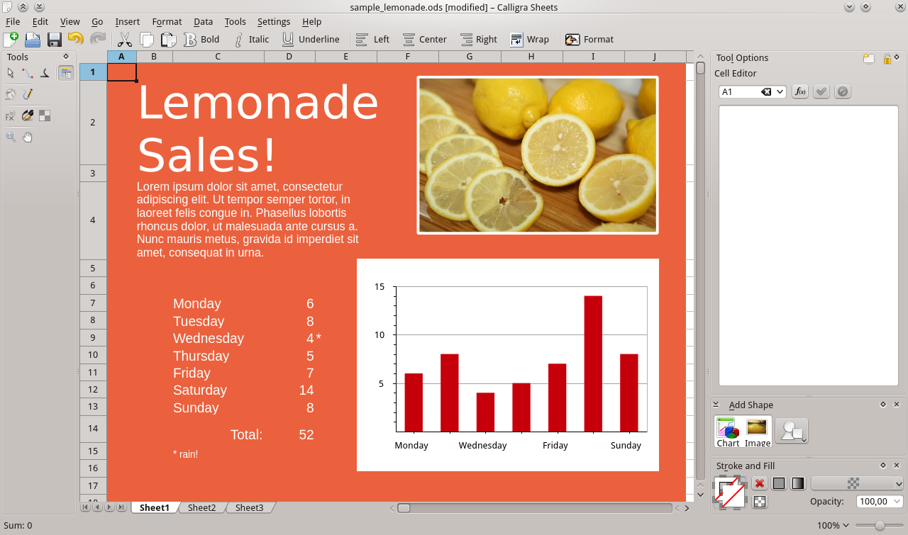 Screenshot of Calligra Sheets 2.4